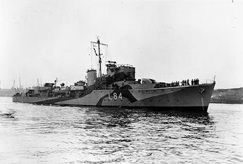 British destroyer HMS HURSLEY underway.